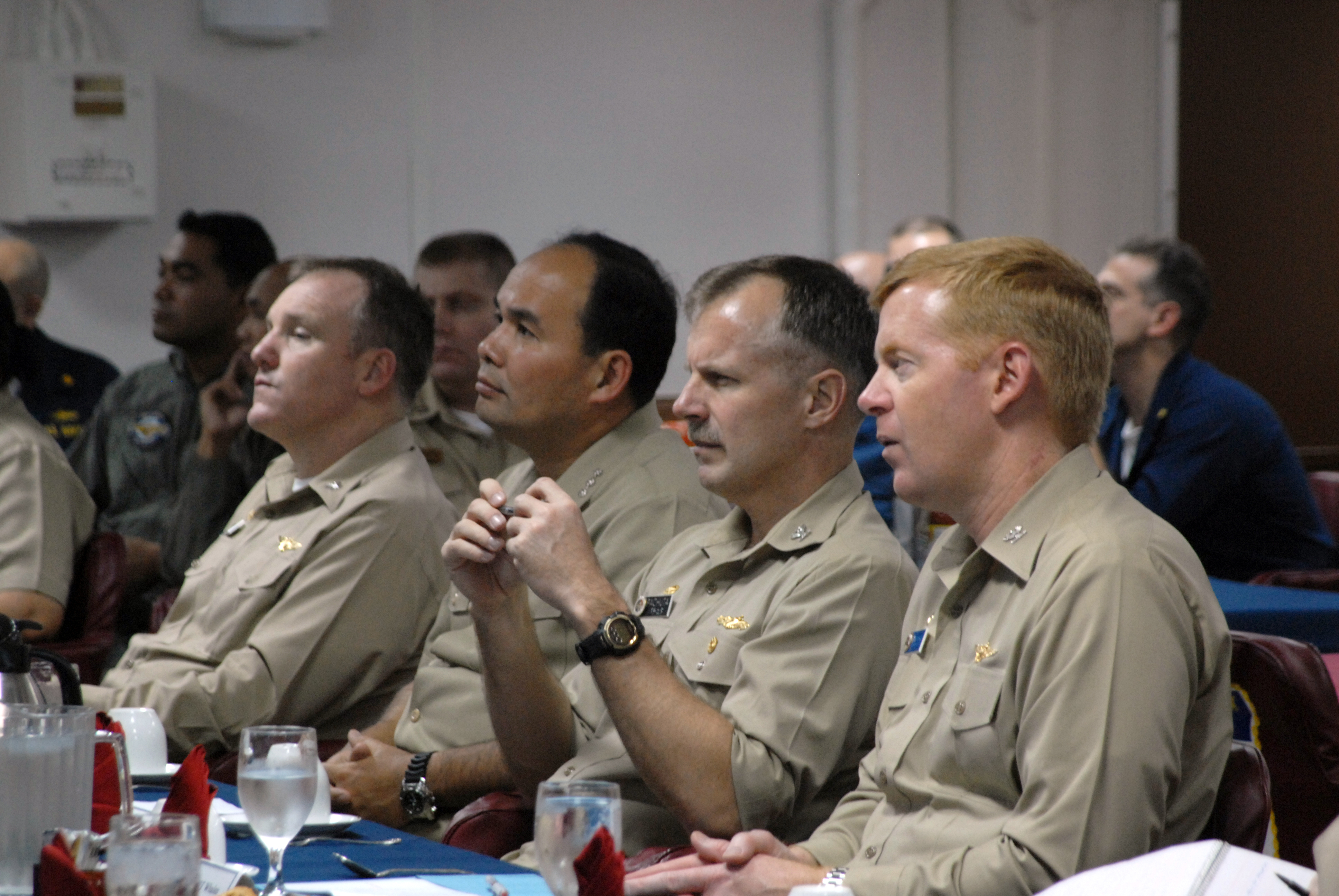 SUBIC BAY, Republic of the Philippines (Feb. 21, 2008) Capt. Anthony Pachuta, center, commander Amphibious Squadron (CPR) 11), and Capt. Leopoldo Alano, Commander Task Force 80, are briefed on Philippine and U.S. Navy events during Balikatan 2008 during a pre-sail conference aboard the forward-deployed amphibious assault ship USS Essex (LHD 2). The United States and the government of the Republic of the Philippines are working bilaterally to ensure humanitarian assistance and disaster relief efforts are efficient and effective. U.S. Navy photo by Mass Communication Specialist 2nd Class David Didier (Released)